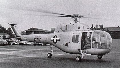 Sikorsky S-59/XH-39 helicopter undergoing run-up during flight testing by the United States Army.